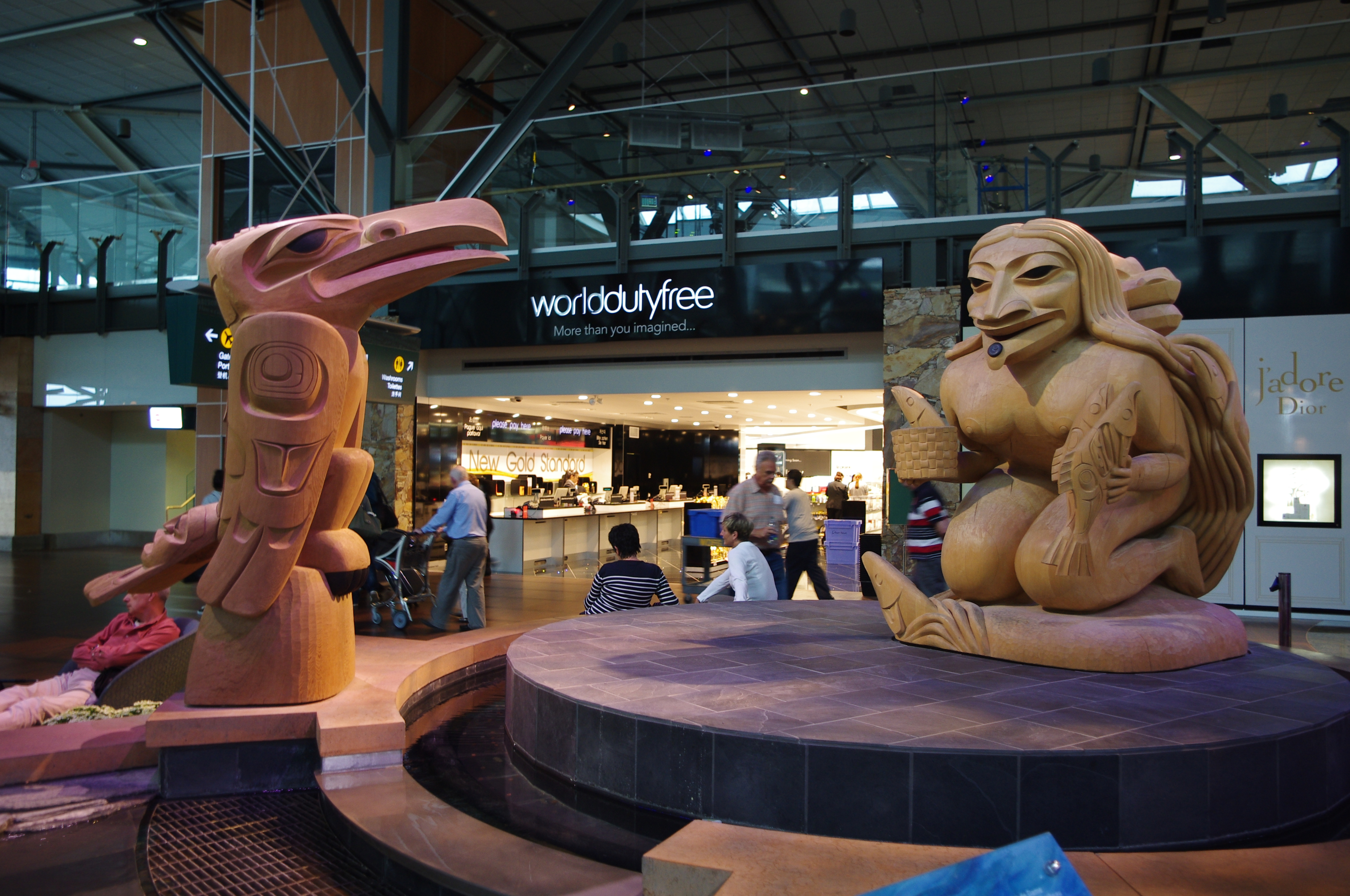 The Story of Fog Woman and Raven, sculpture by Dempsey Bob: “Raven found out that Fog Woman had salmon, so he married her to get the salmon. The salmon made Raven wealthy and for a while he was content. Eventually, Raven became bored and mistreated Fog Woman, so she left Raven. Fog Woman called back the salmon that she gave to Raven, even the salmon in his smoke house. Raven realized his mistake and tried to grab her, but she turned to fog. Still, Fog Woman wanted the people to have the salmon, so once a year the salmon return to the streams to spawn and bring food to the people.”